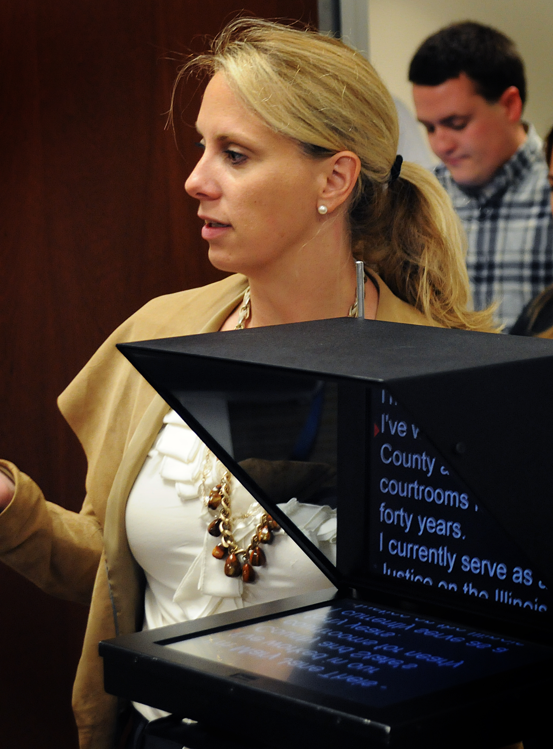 Terrie Pickerill, on set in June 2011.